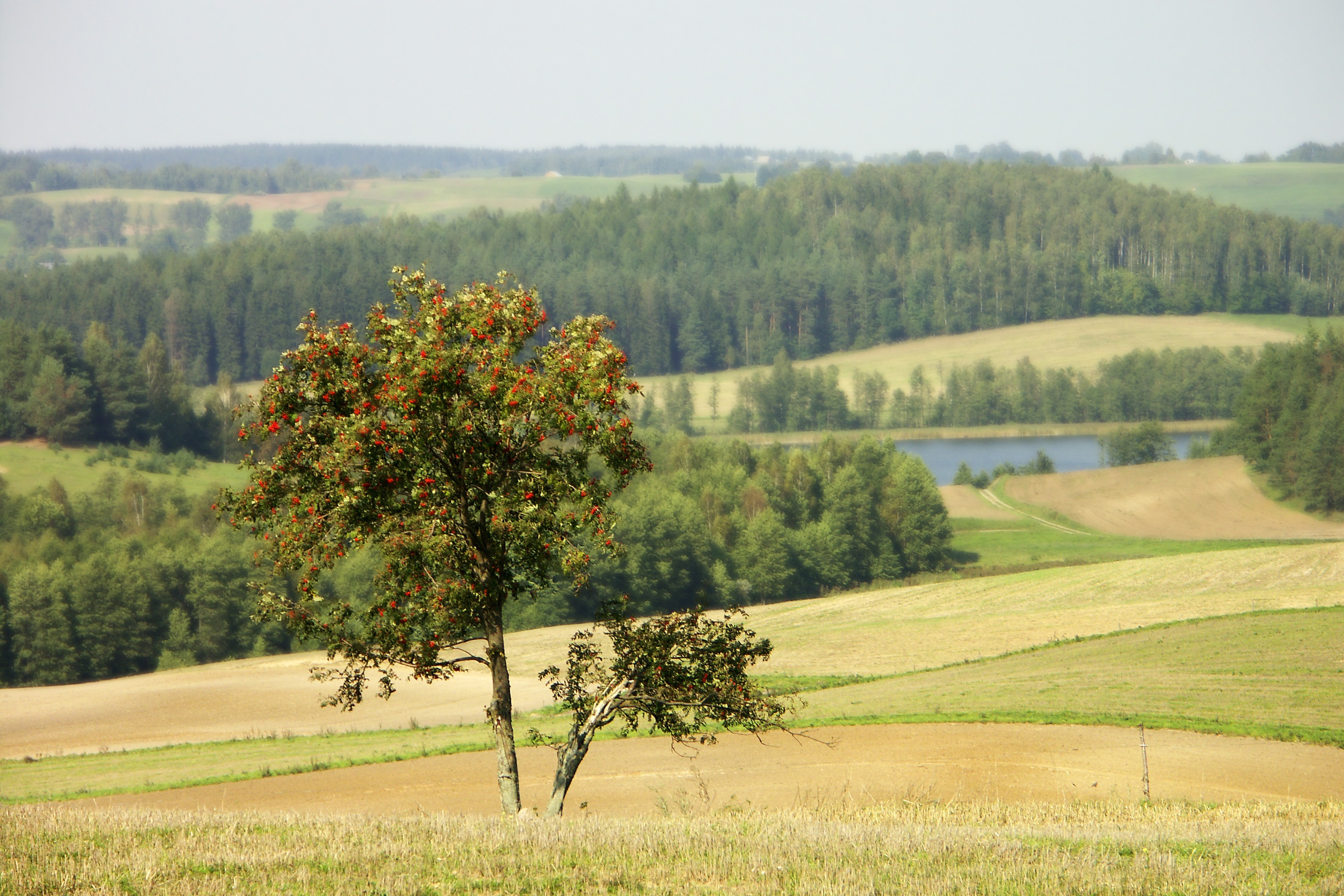 Typical landscape of Polish